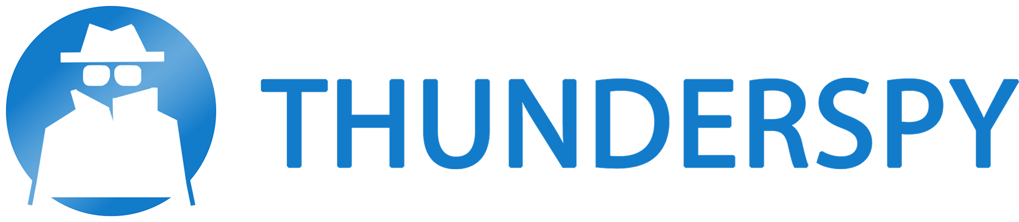 Logo for the Thunderspy security vulnerability article.